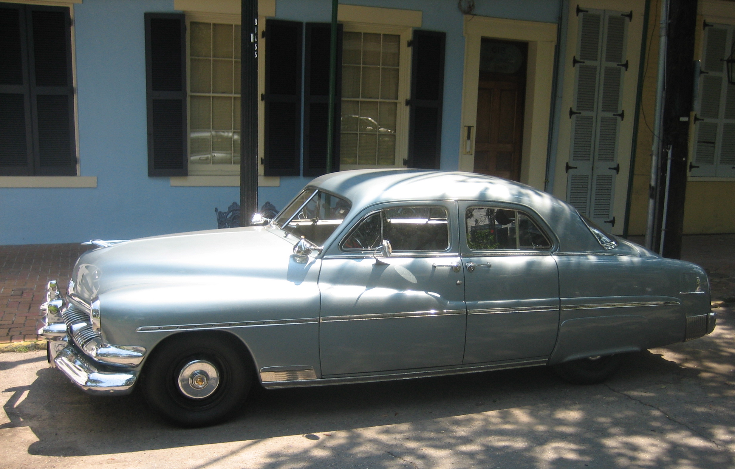 1951 Mercury on Esplanade Avenue, New Orleans